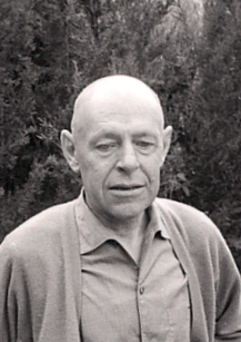 Jean Dubuffet, in 1960.